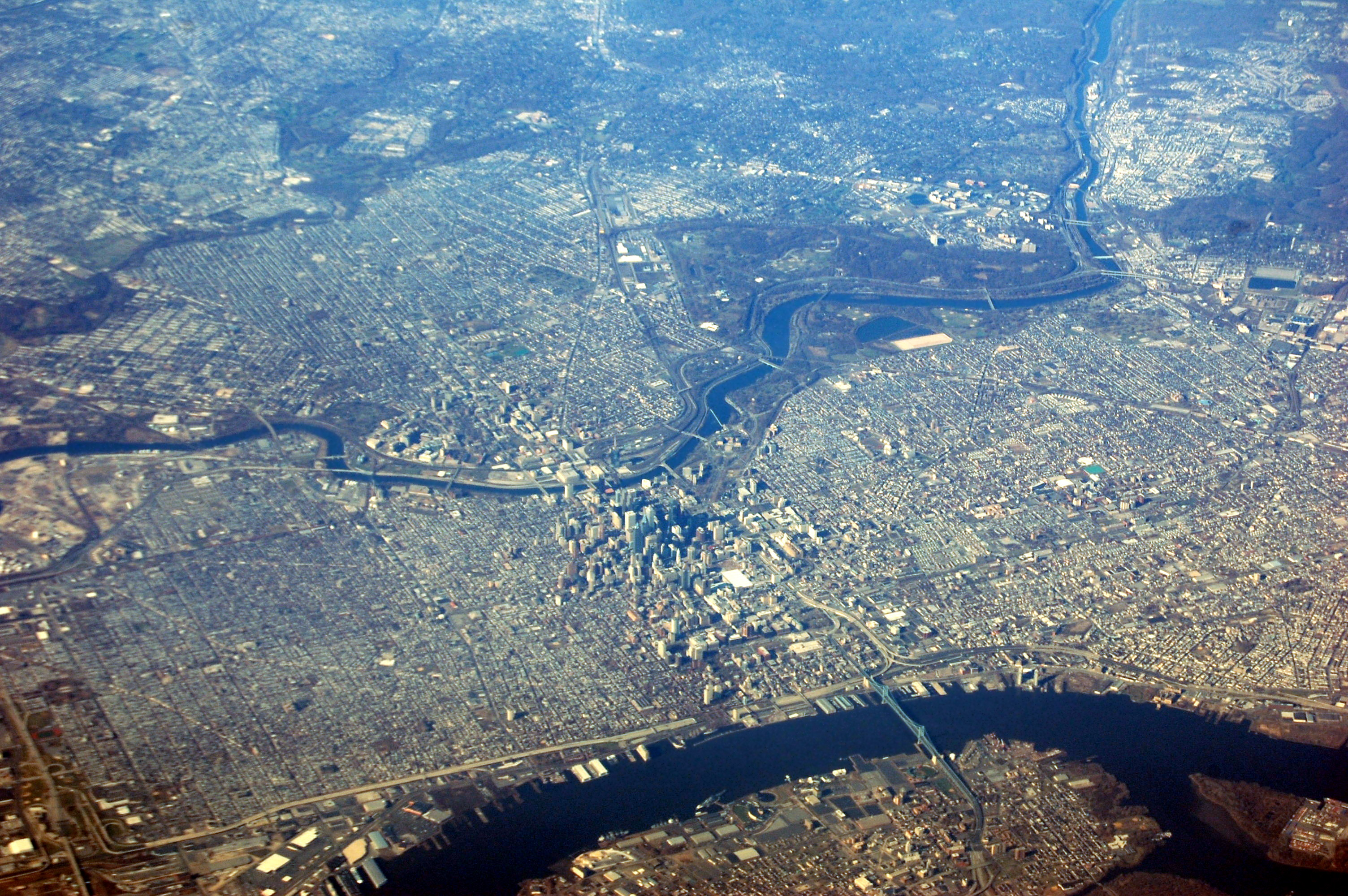 Aerial view of Philadelphia, from the east. Prominent is the Benjamin Franklin Bridge crossing the Delaware River.